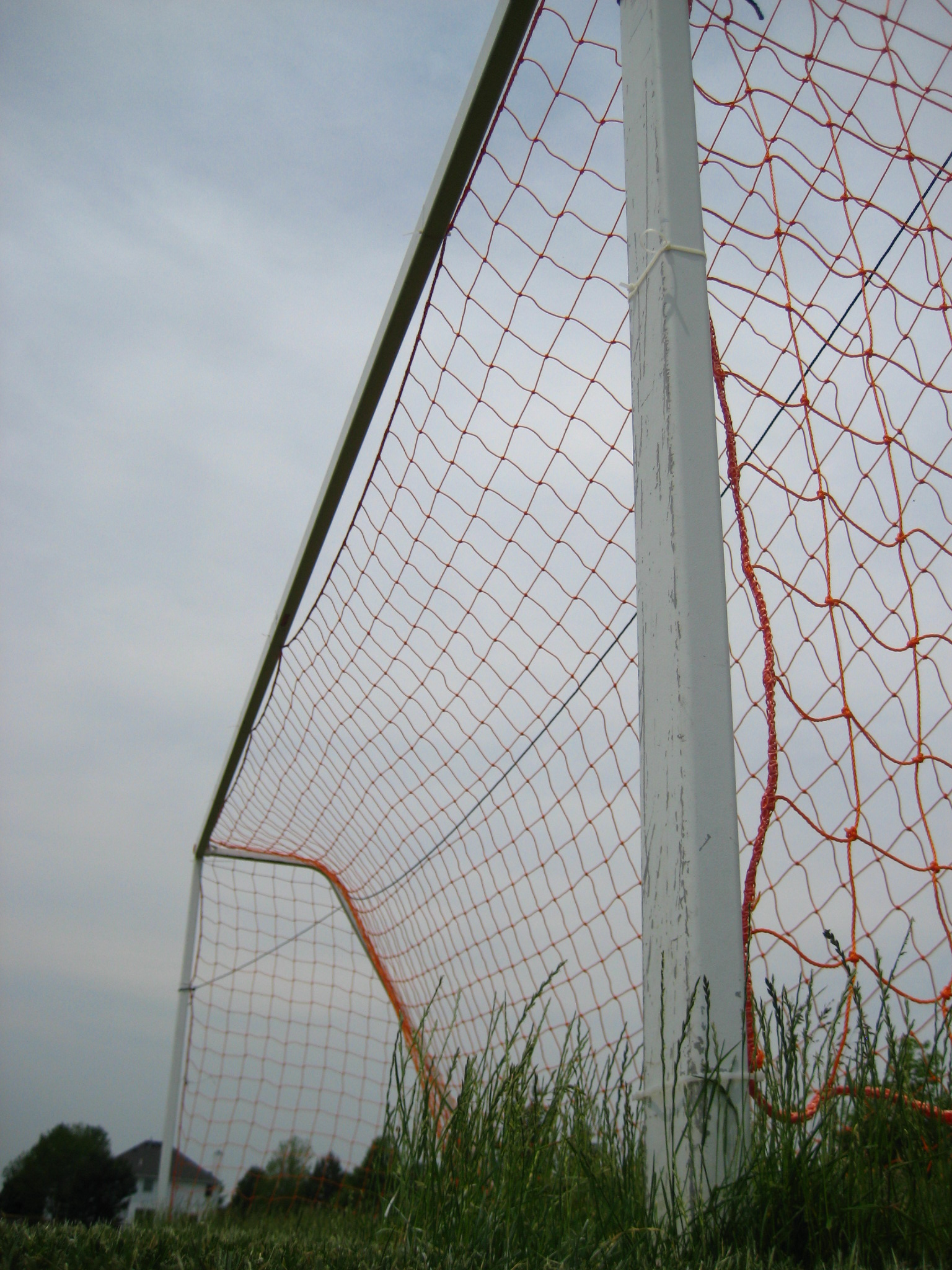 A low angle of a soccer goal on a playing field in the state of Ohio.